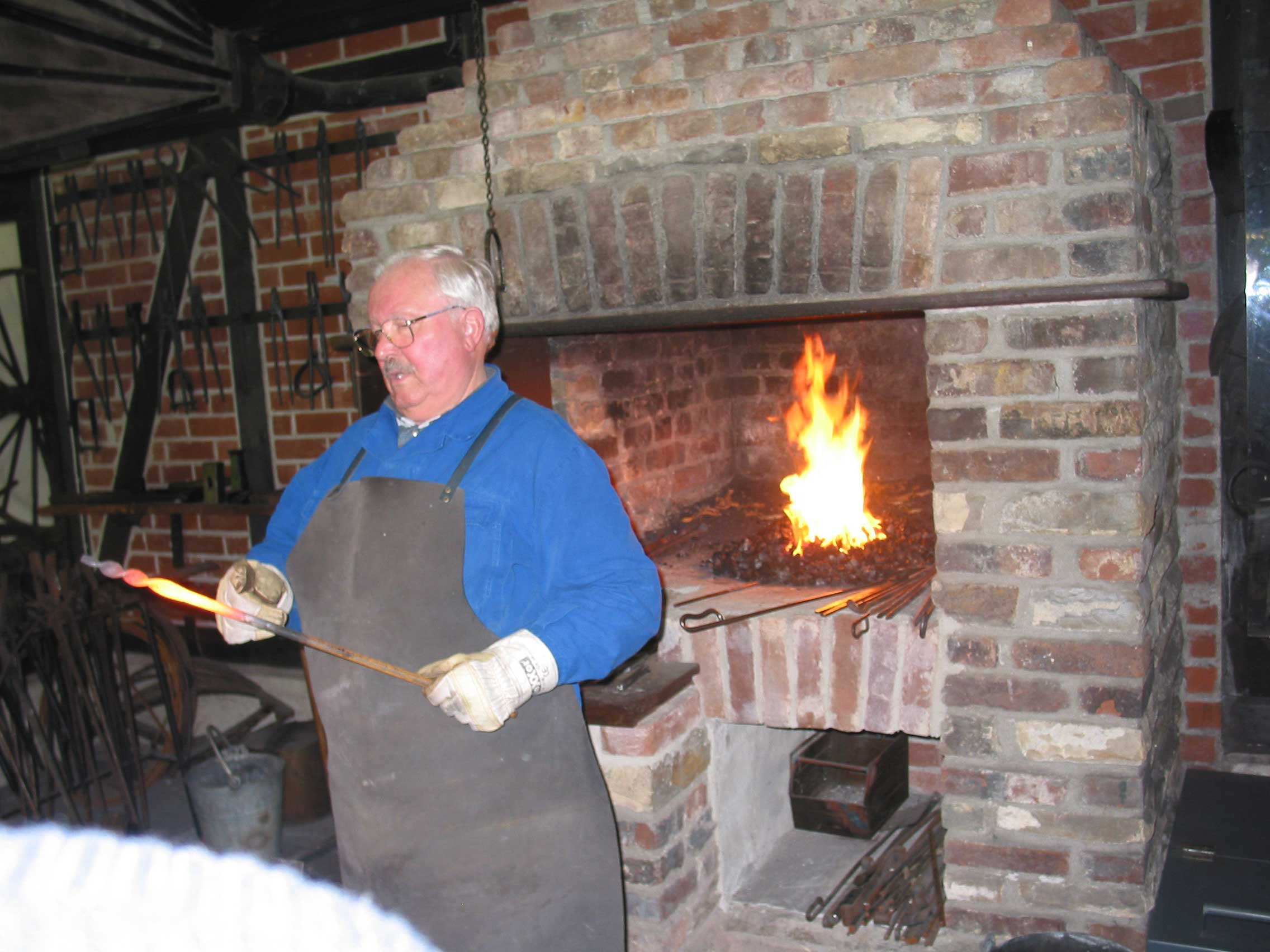 Museum axle wheel and car in Wiehl at the company BPW axle factory KG - Forging handicraft Author This picture was made available kindly by Manfred Nierstenhöfer - for Wikipedia* Licence GNU FDL and CC-by-SA